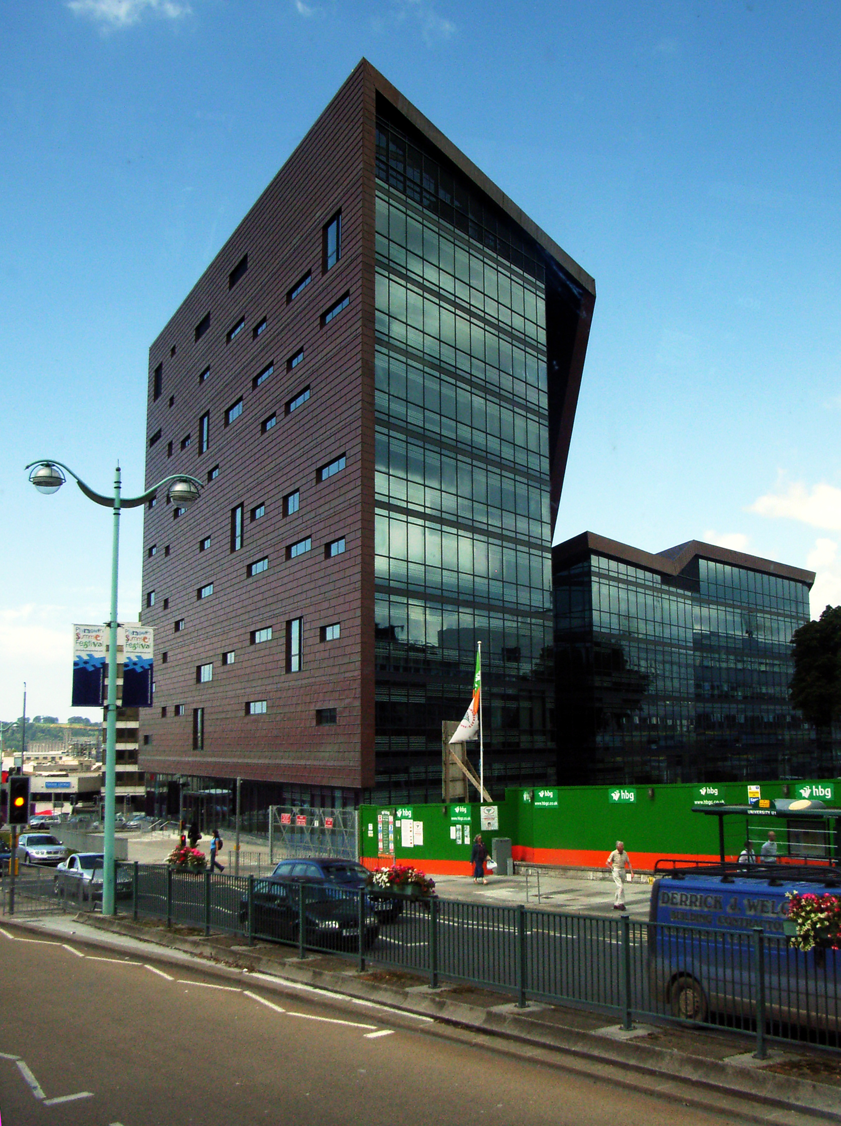 The Roland Levinsky Building, Plymouth University. Completed in 2007, the Building houses the University's Arts and Architecture Faculties.